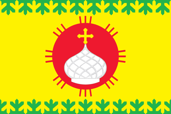 Flag of Troitcko-Pechorsk, (Komia)